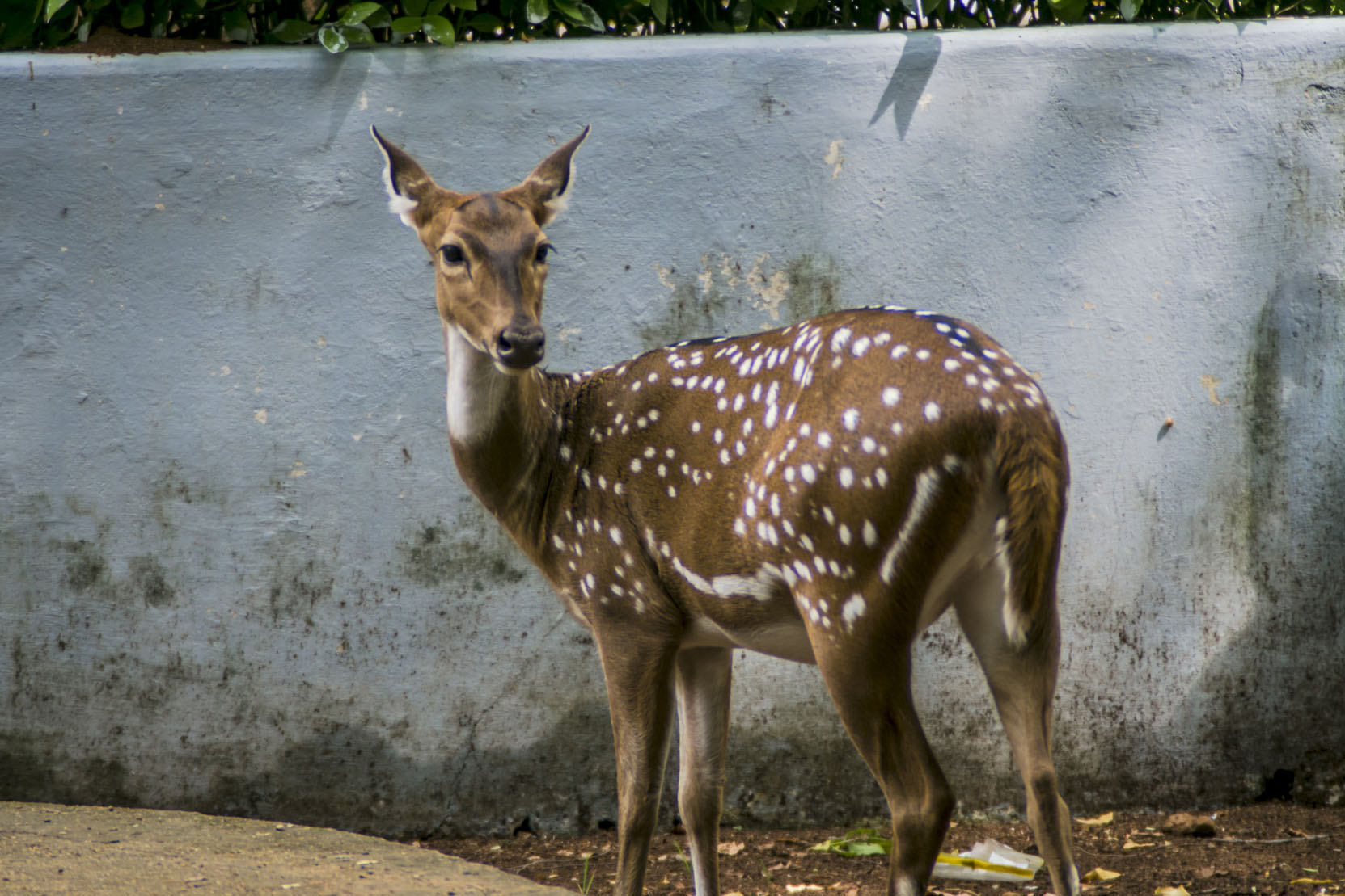 Freely wandering deer at Children's park/Guindy National Park, Chennai.